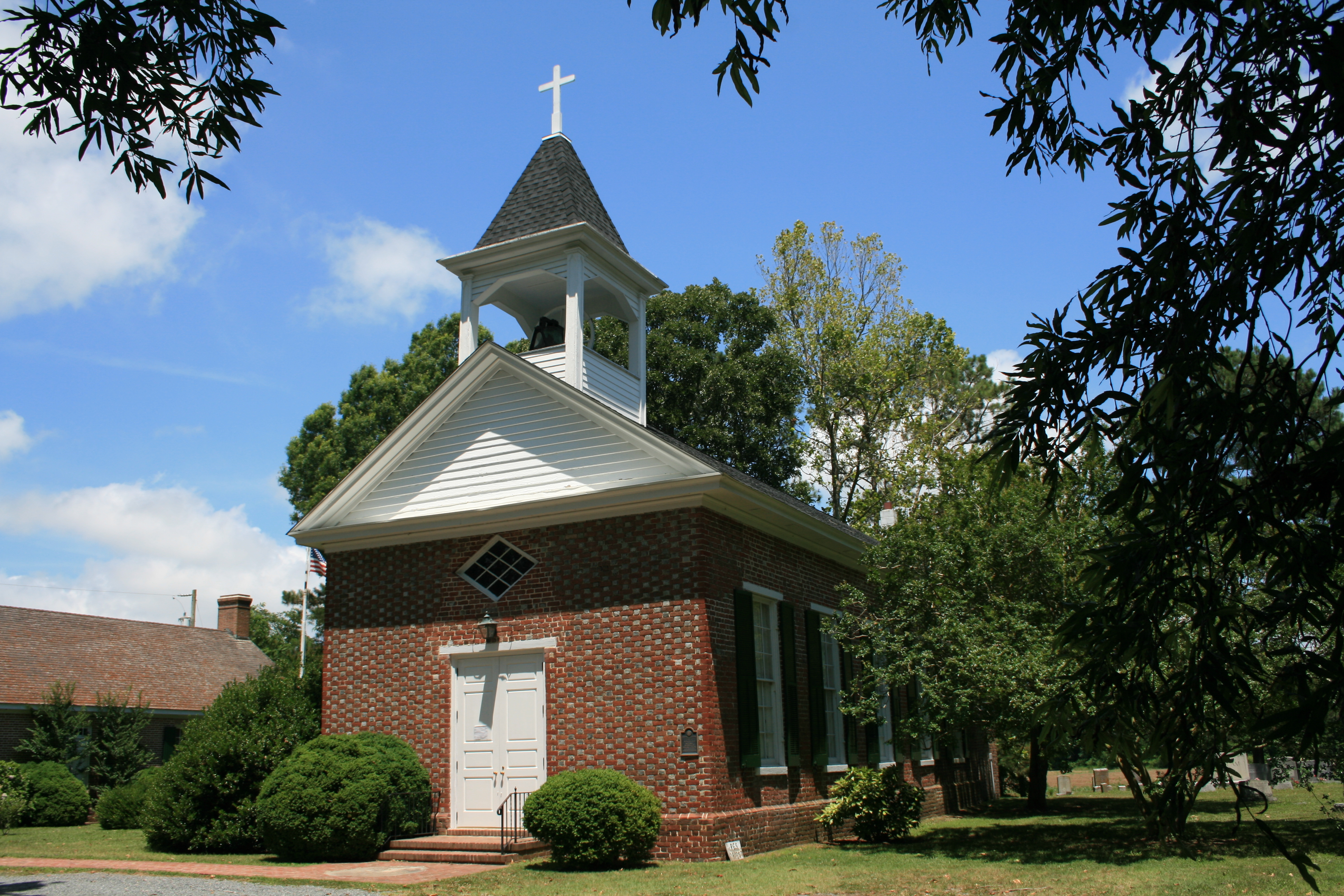 St. George's Episcopal Church in Pungoteague, Virginia taken June 30, 2008.